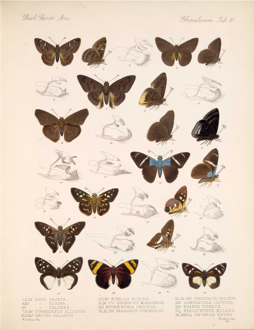 1-3: Cogia cajeta = Cogia cajeta (Herrich-Schäffer, 1869) (1: upperside, 2: underside, 3: male genitalia) 4-5: Cogia eluina = Cogia cajeta eluina Godman & Salvin, [1894] (4: upperside, 5: underside) 6: Cogia calchas = Cogia calchas (Herrich-Schäffer, 1869) (male genitalia) 7-9: Typhedanus alladius = Typhedanus ampyx (Godman & Salvin, [1893]) (7: upperside, 8: underside, 9: male genitalia) 10-12: Cæcina calanus = Ocyba calathana calanus (Godman & Salvin, [1894]) (10: upperside, 11: underside, 12: male genitalia) 13-14: Æthilla echina = Aethilla echina Hewitson, 1870 (13: underside, 14: male genitalia) 15-17: Orneates ægiochus = Celaenorrhinus aegiochus (Hewitson, 1876) (15: upperside, 16: underside, 17: male genitalia) 18: Hydrænomia orcinus = Udranomia orcinus (C. & R.Felder, [1867]) (male genitalia) 19-21: Paradros formosus = Drephalys dumeril (Latreille, 1824) (19: upperside, 20: underside, 21: male genitalia) 22-24: Drephalys helixus = Drephalys helixus (Hewitson, 1877) (22: upperside, 23: underside, 24: male genitalia) 25: Lignyostola lacydus = Hyalothyrus neleus neleus (Linnaeus, 1758) (male genitalia) 26: Phanus vitreus = Phanus vitreus (Stoll, [1781]) (male genitalia) 27: Hyalothyrus neleus = Hyalothyrus neleus neleus (Linnaeus, 1758) (female upperside) 28-30: Entheus matho = Entheus matho Godman & Salvin, 1879 (28: male upperside, 29: male genitalia, 30: female upperside)